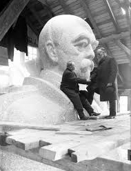 Bismarck Kopf mit den Ingenieuren Studer und Klemann, 1906